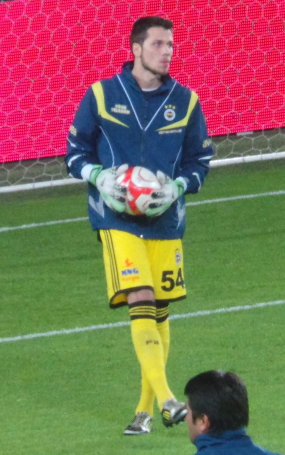 Erten Ersu @ Fethiyespor